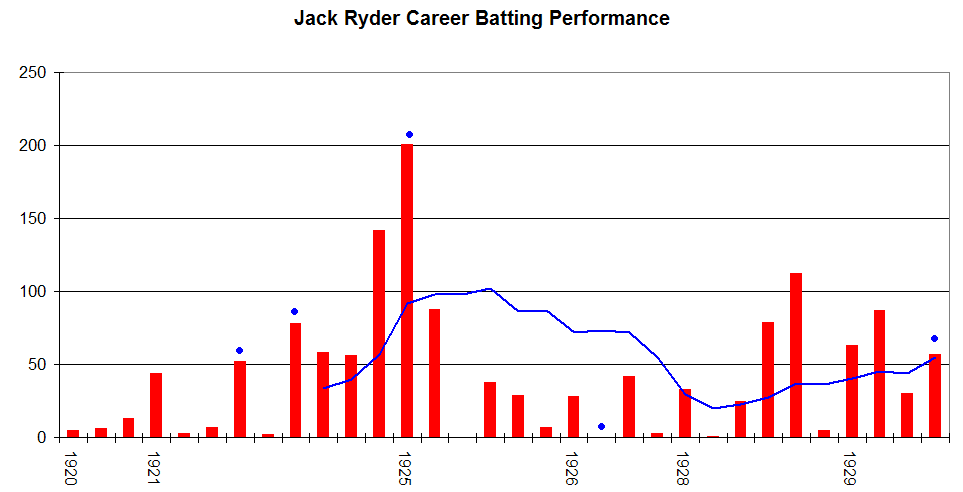 This graph details the Test Match performance of Jack Ryder. It was created by Raven4x4x. The red bars indicate the player's test match innings, while the blue line shows the average of the ten most recent innings at that point. Note that this average cannot be calculated for the first nine innings. The blue dots indicate innings in which Ryder finished not-out. This graph was generated with Microsoft Excel 2002, using data from Cricinfo and .au.